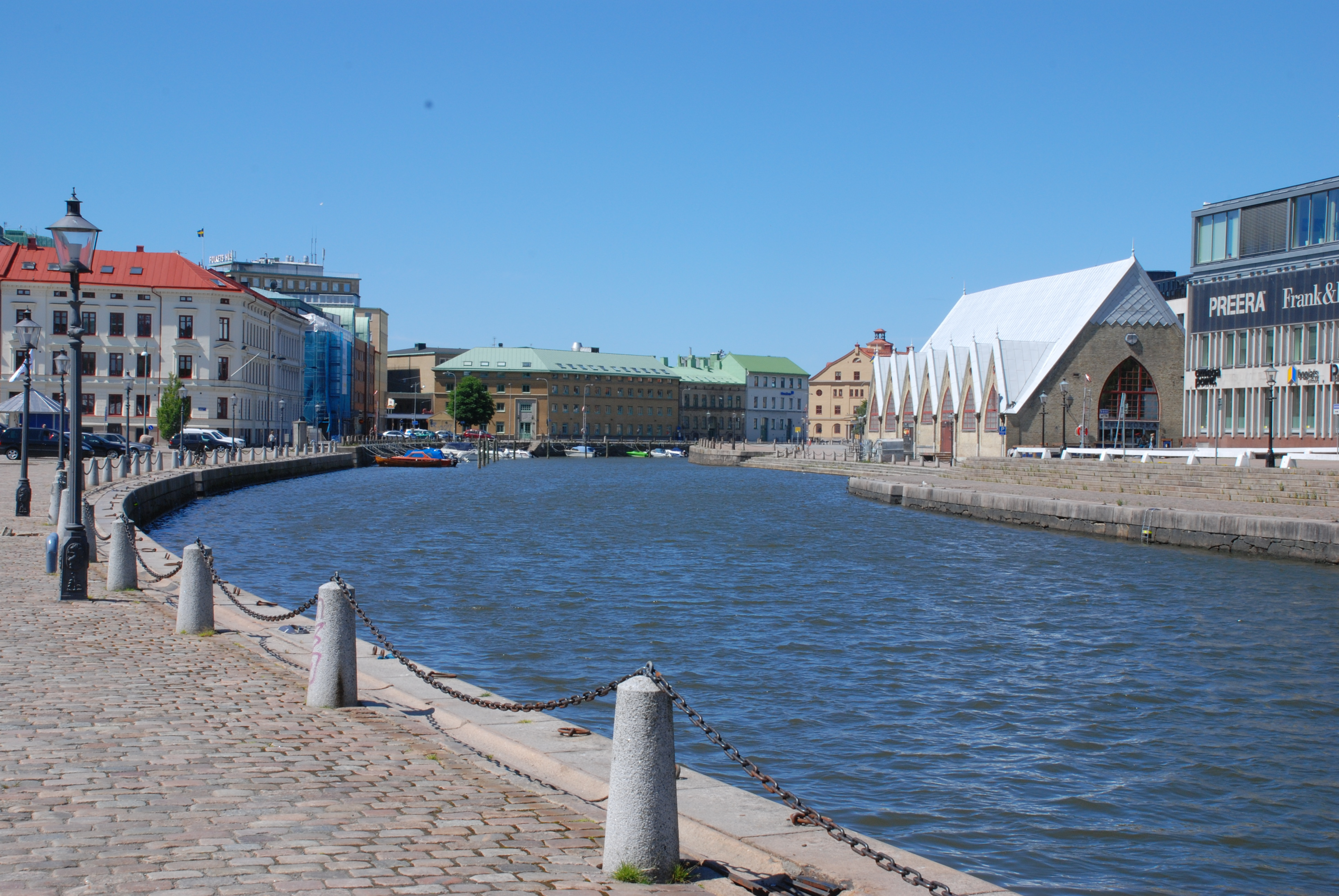 The canal Rosenlundskanalen in Göteborg, from Pusterviksplatsen.